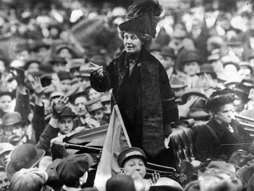 Emmeline Pankhurst addresses a crowd in New York City in 1913